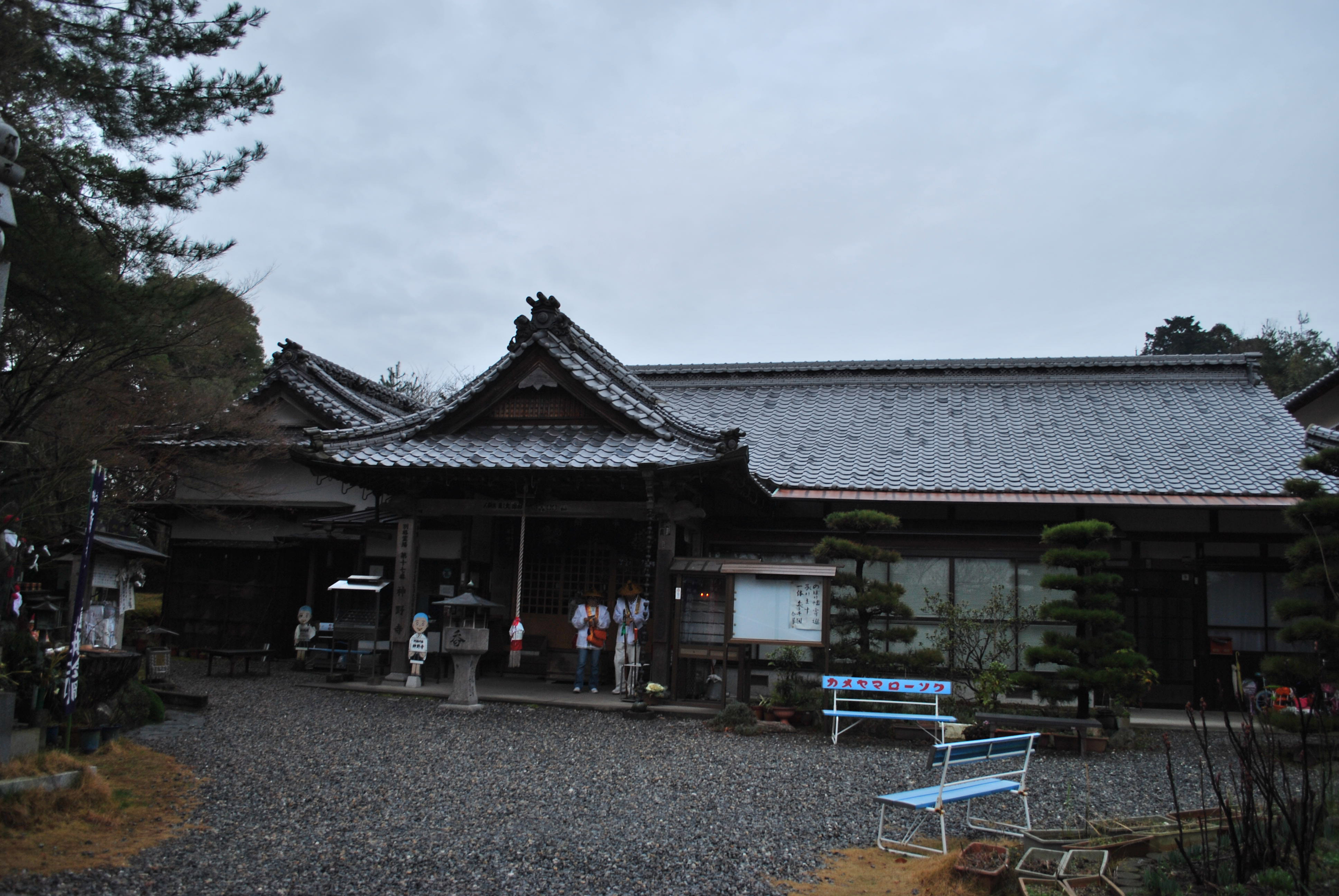 Main temple, Kanno-ji